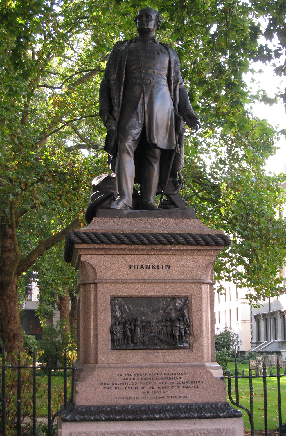 Statue of Sir John Franklin on Waterloo Place, London.